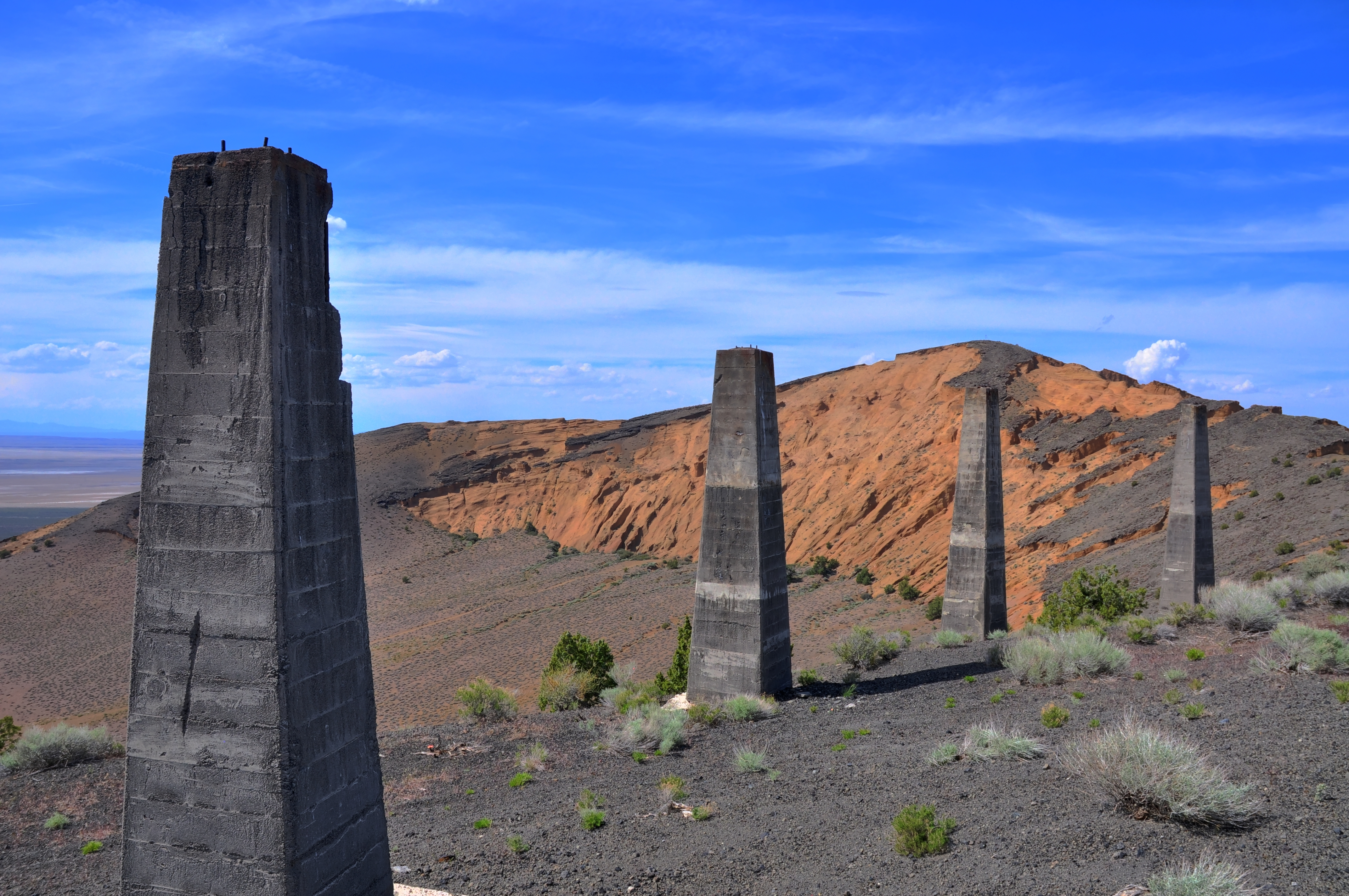 A butte formed 15,500 year ago by a dormant volcano in the Sevier Desert in the Pahvant Valley in the east portion of Millard County in the west-central portion of the state of Utah.